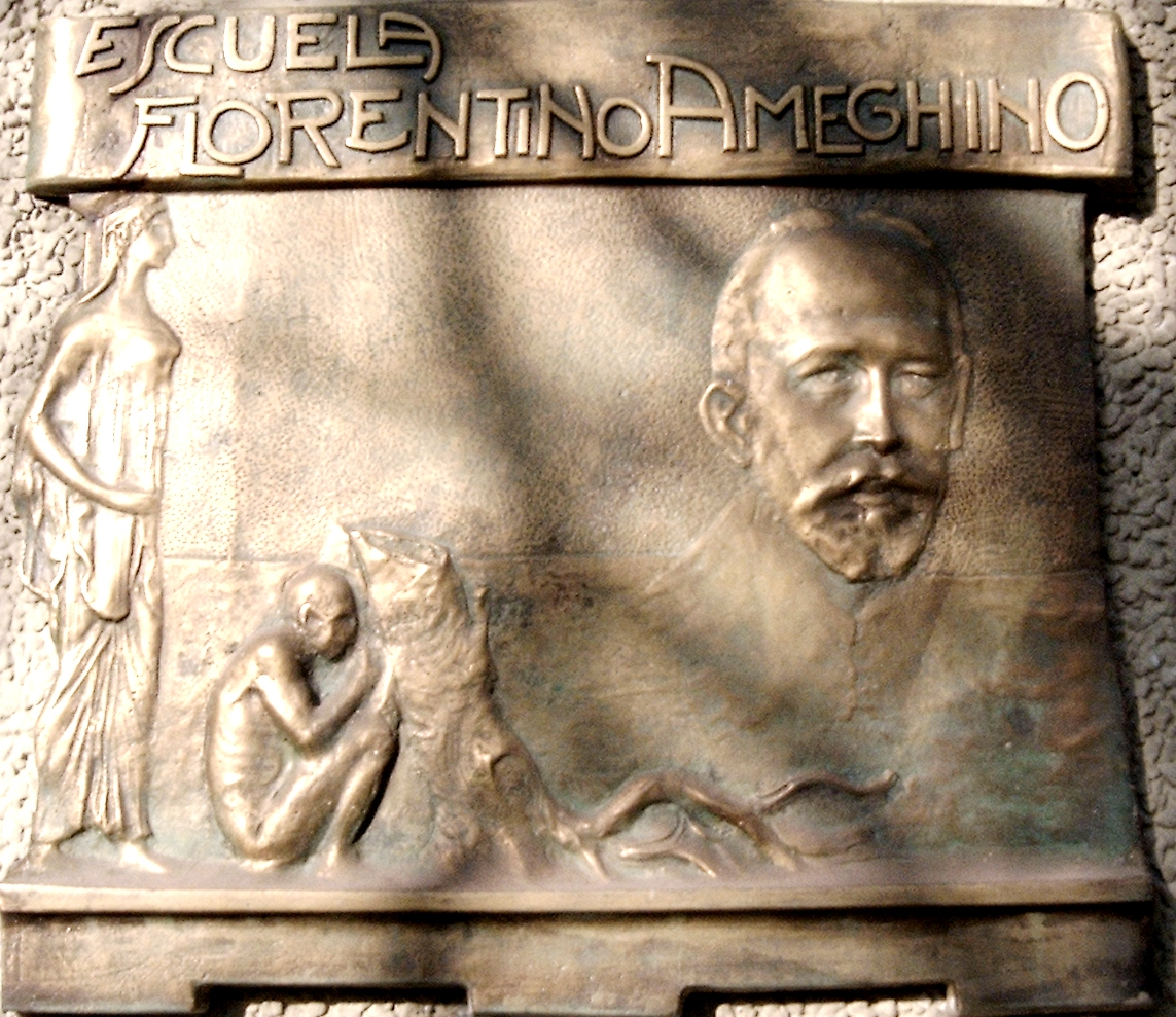 Plaque of Florentino Ameghino, by sculptor Erminio Blotta, at the Ameghino School, Buenos Aires street, Rosario. Photograph by Luis A. Blotta